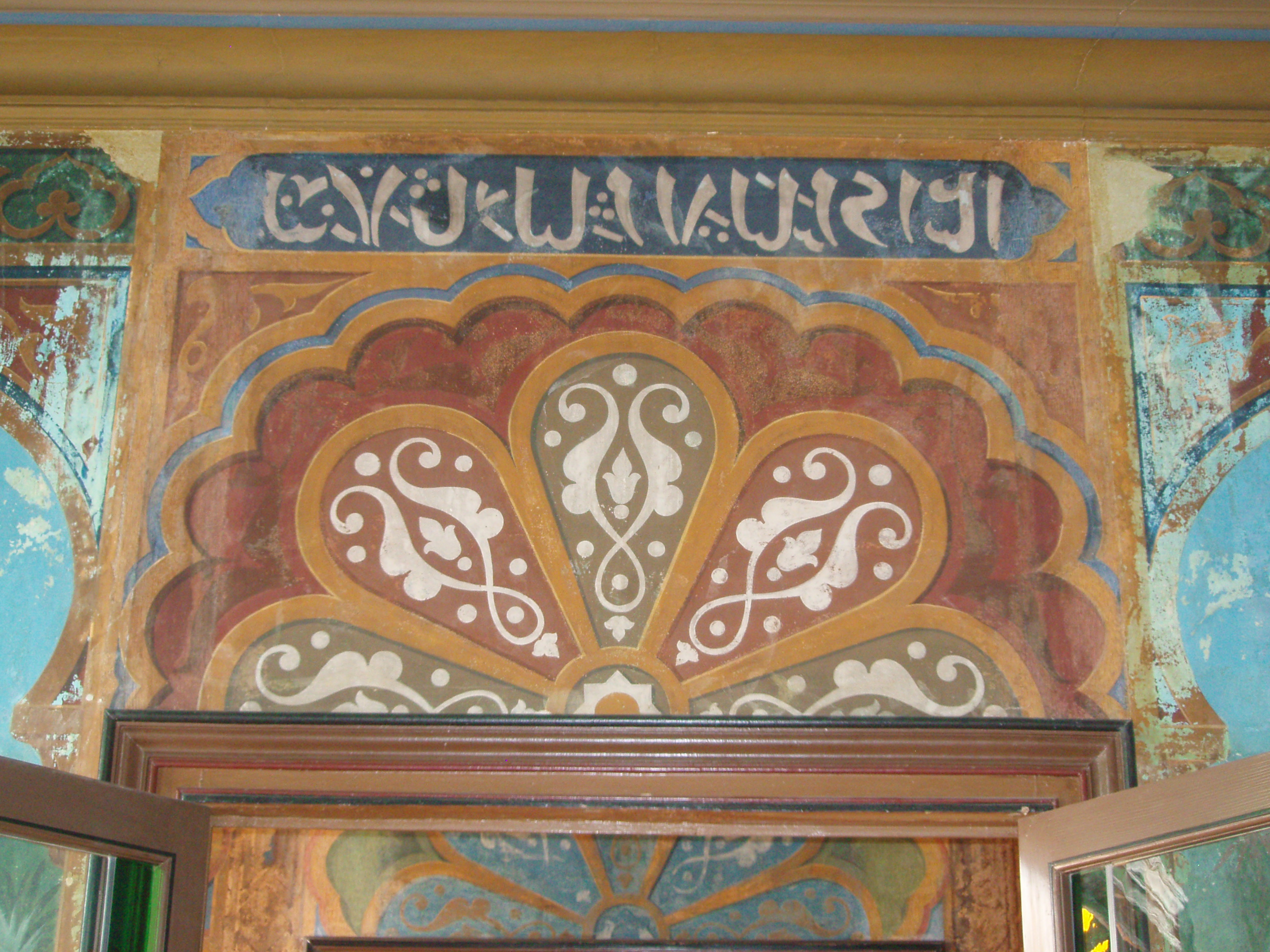 amharic in Casamaures, historical monument in Saint-Martin-le-Vinoux.